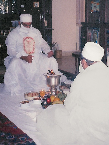 Parsi Jashan ceremony (Zoroastrianism). In this case, a house/home blessing.